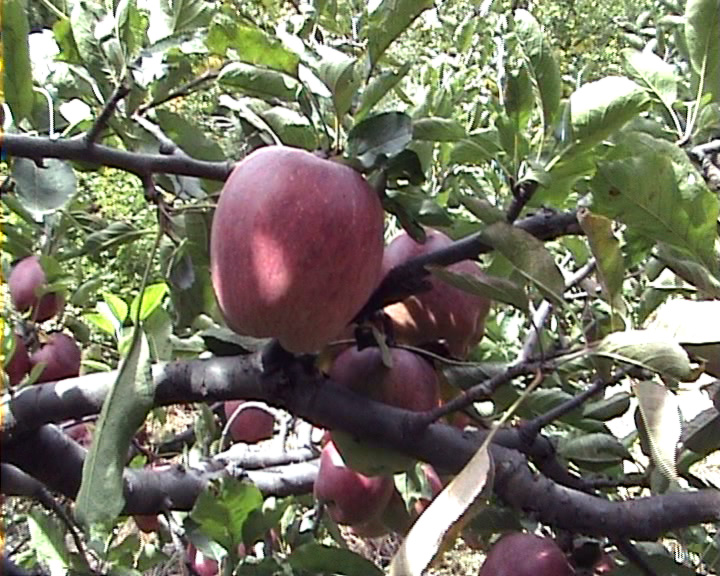 Apple cultivation in Nepal